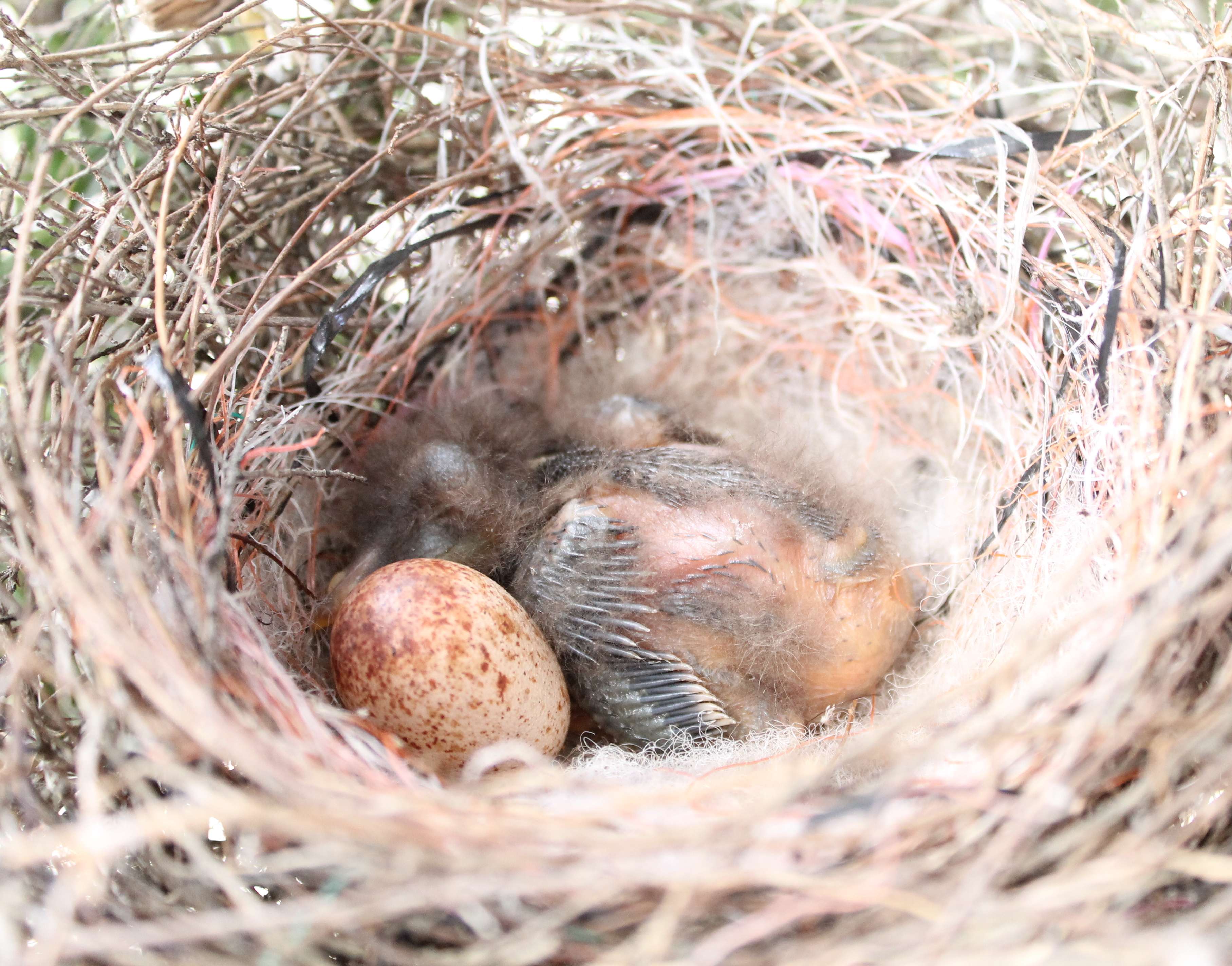 Noisy miner chick and egg in a nest in a tree in the nature strip in my suburban street in Victoria.